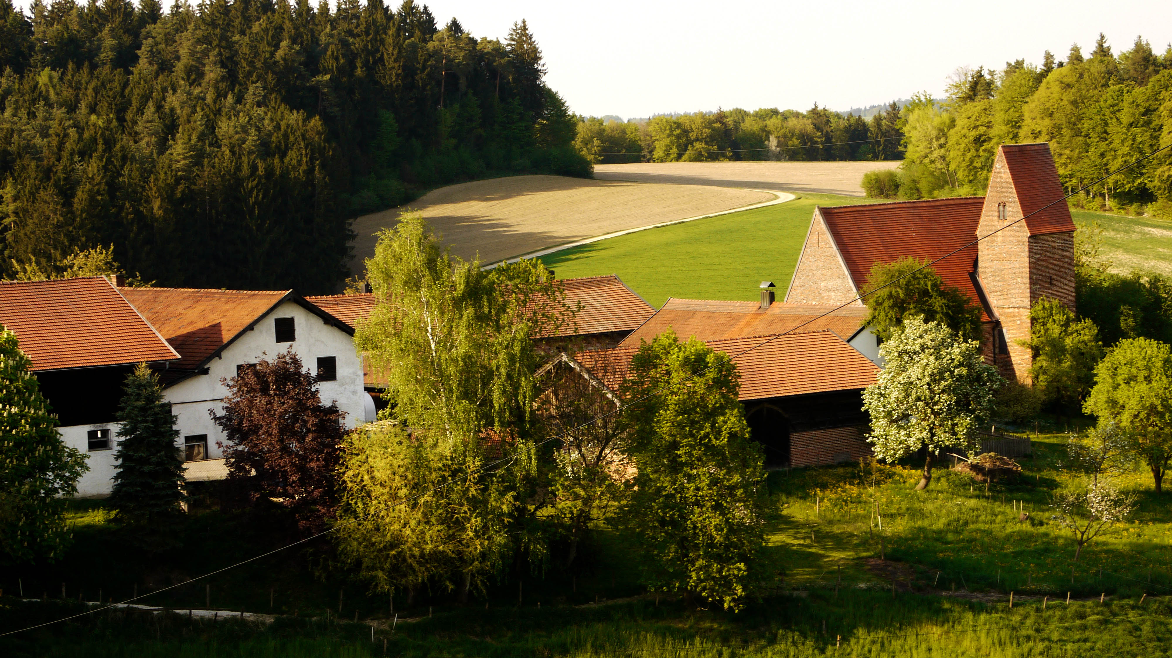 Municpality of Berg near Reischach, Bavaria, Germany